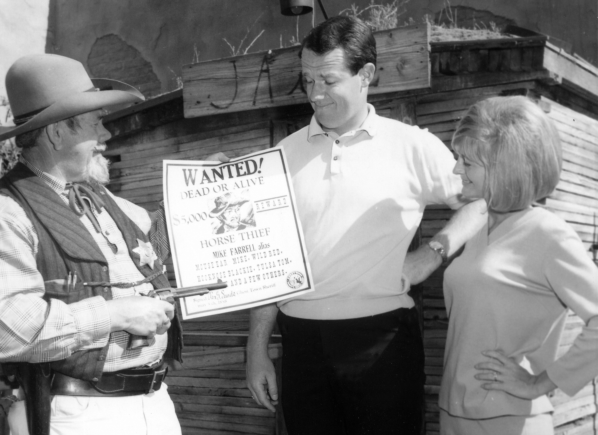 Mike and Judy Farrell at Knott's Berry Farm. Mike is presented with a "Wanted" poster by Ghost Town Marshal Paul Steelman.